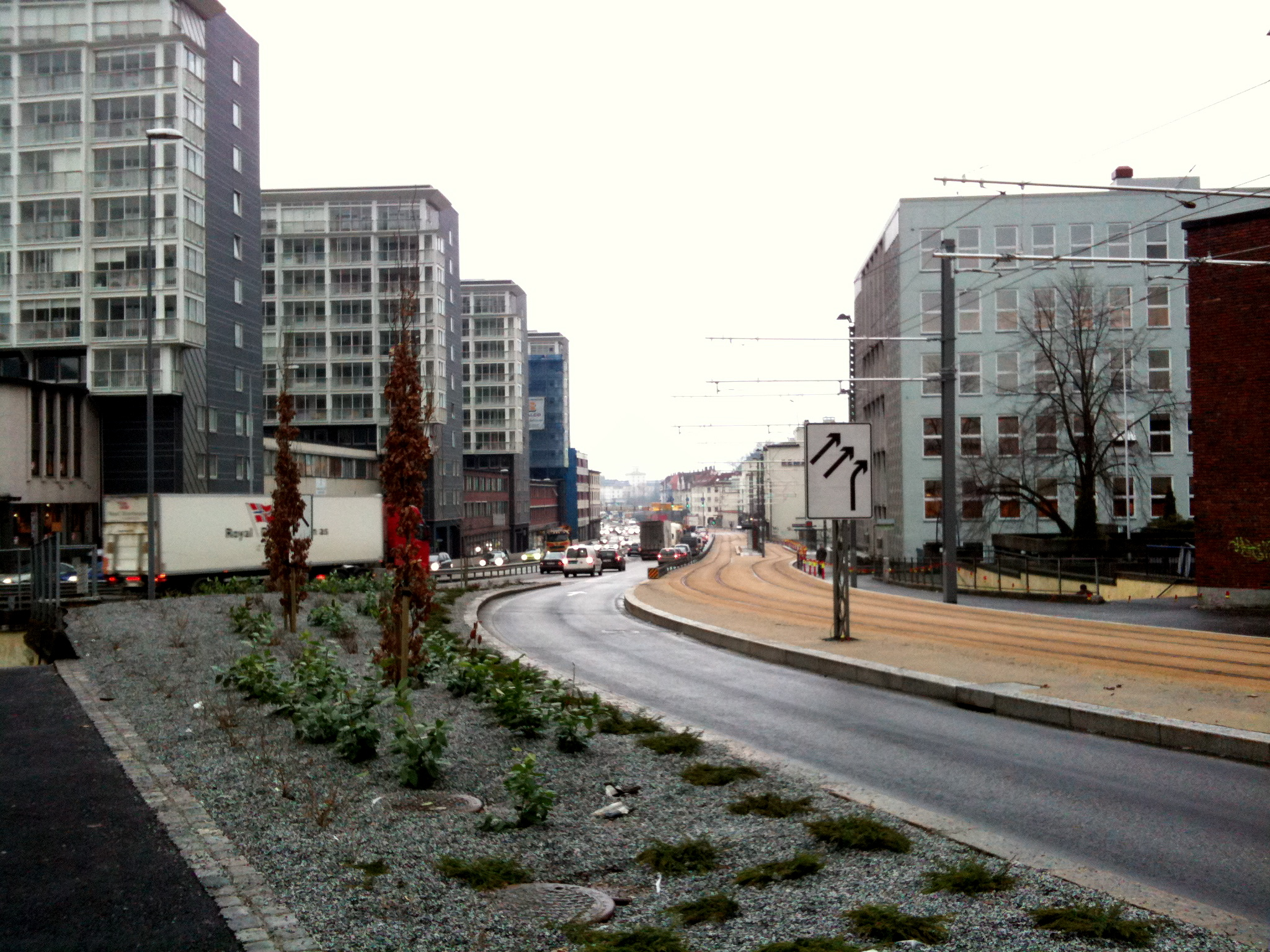 Danmarksplass in Bergen, Norway seen from south